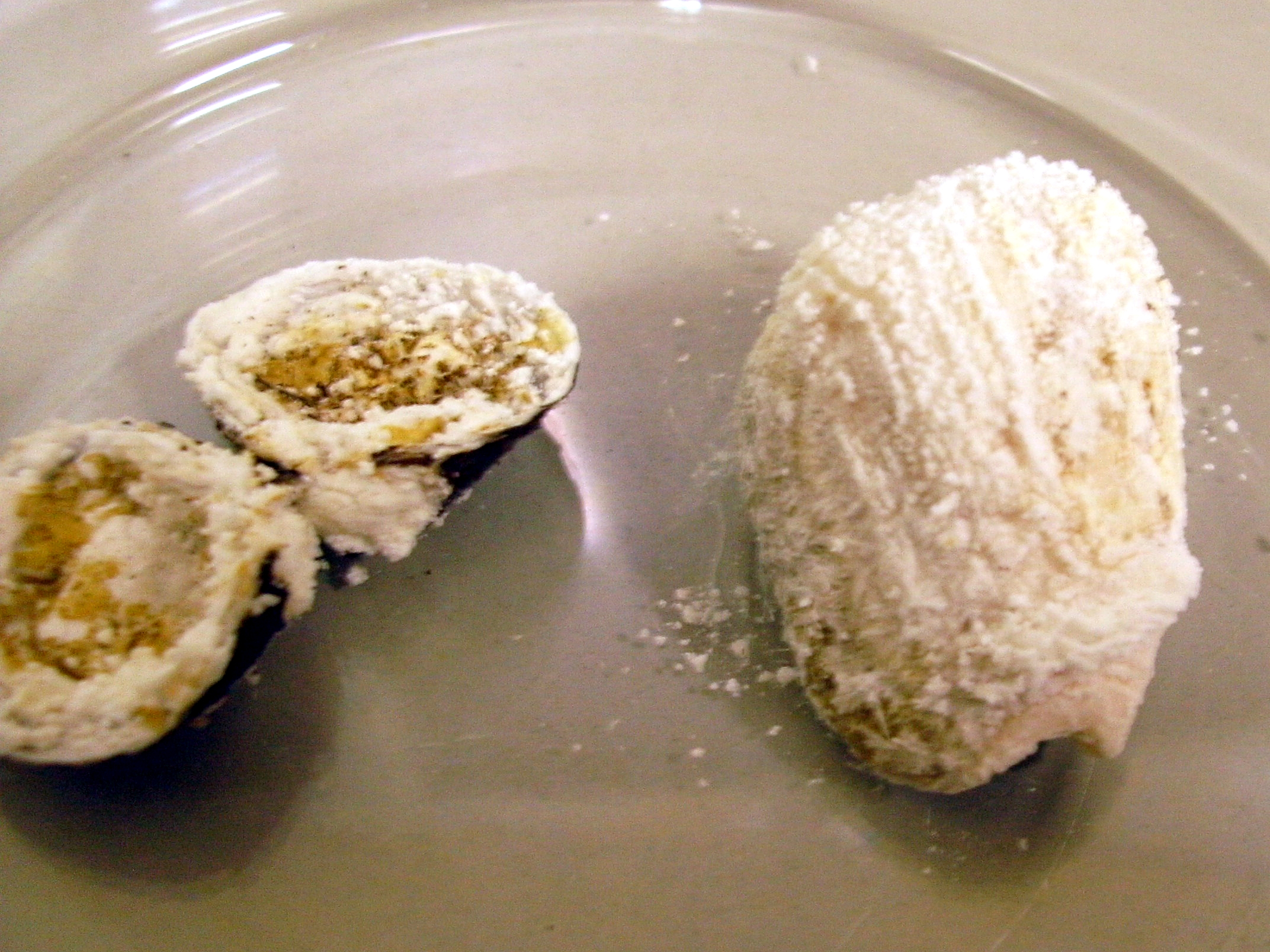 Effects of acidic vapors on mollusk shells. The efflorecence is clearly visible in both specimens. To the right, an affected shell of Olivancillaria urceus (marine snail); To the left an affected shell of Corbicula fluminea (freshwater bivalve). Both were exposed to an excessively humid and acidic medium (acetic acid) for some weeks.